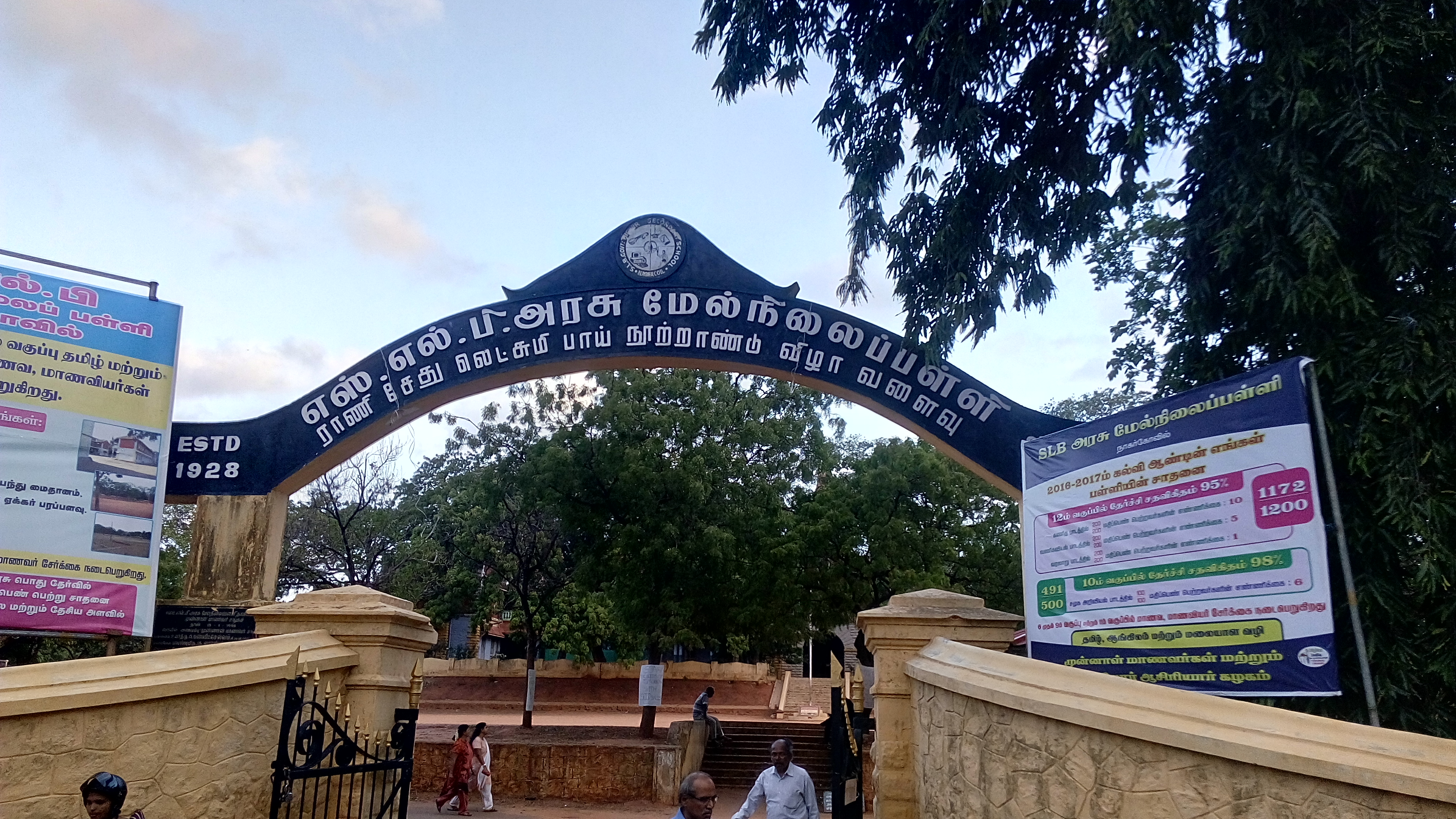 School Front Gate